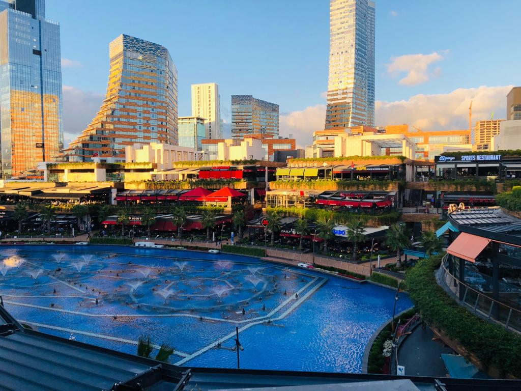 Ataşehir/İstanbul